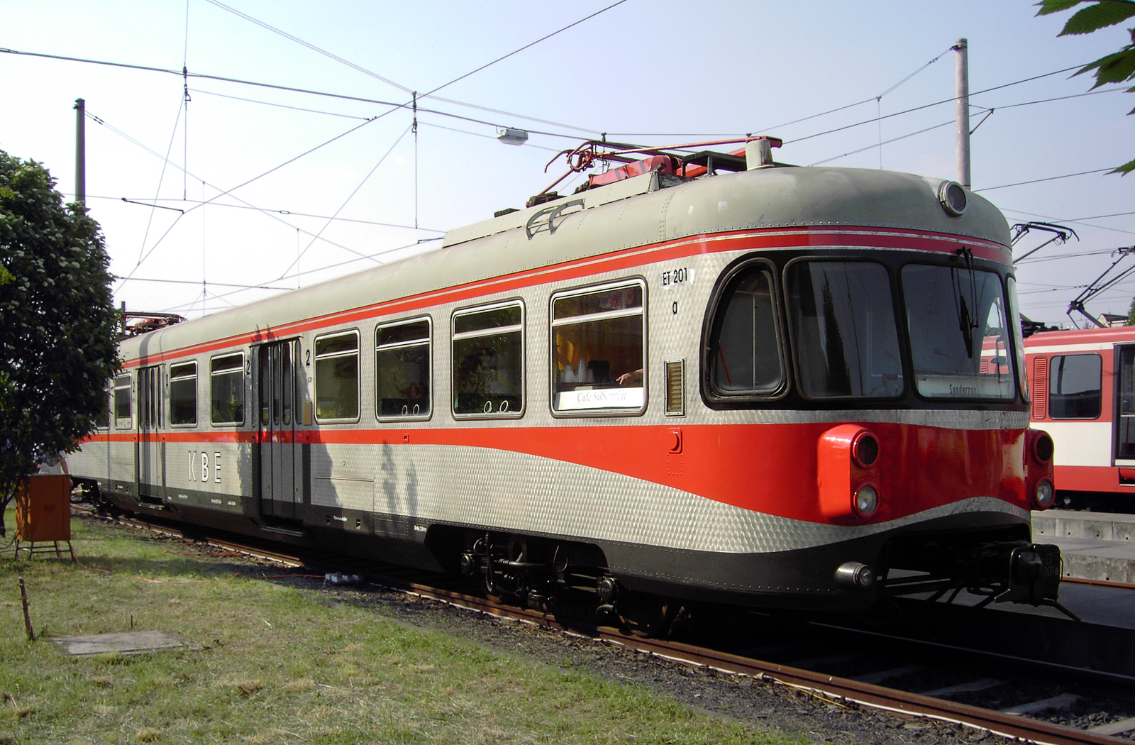 Historic EMU ET201 "silver arrow" formerly of the Cologne-Bonn Railways (KBE)